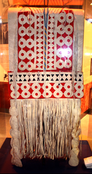 Apache saddlebag (brain-tanned deerhide on red wool), Oklahoma, collection of Oklahoma History Center, OKC